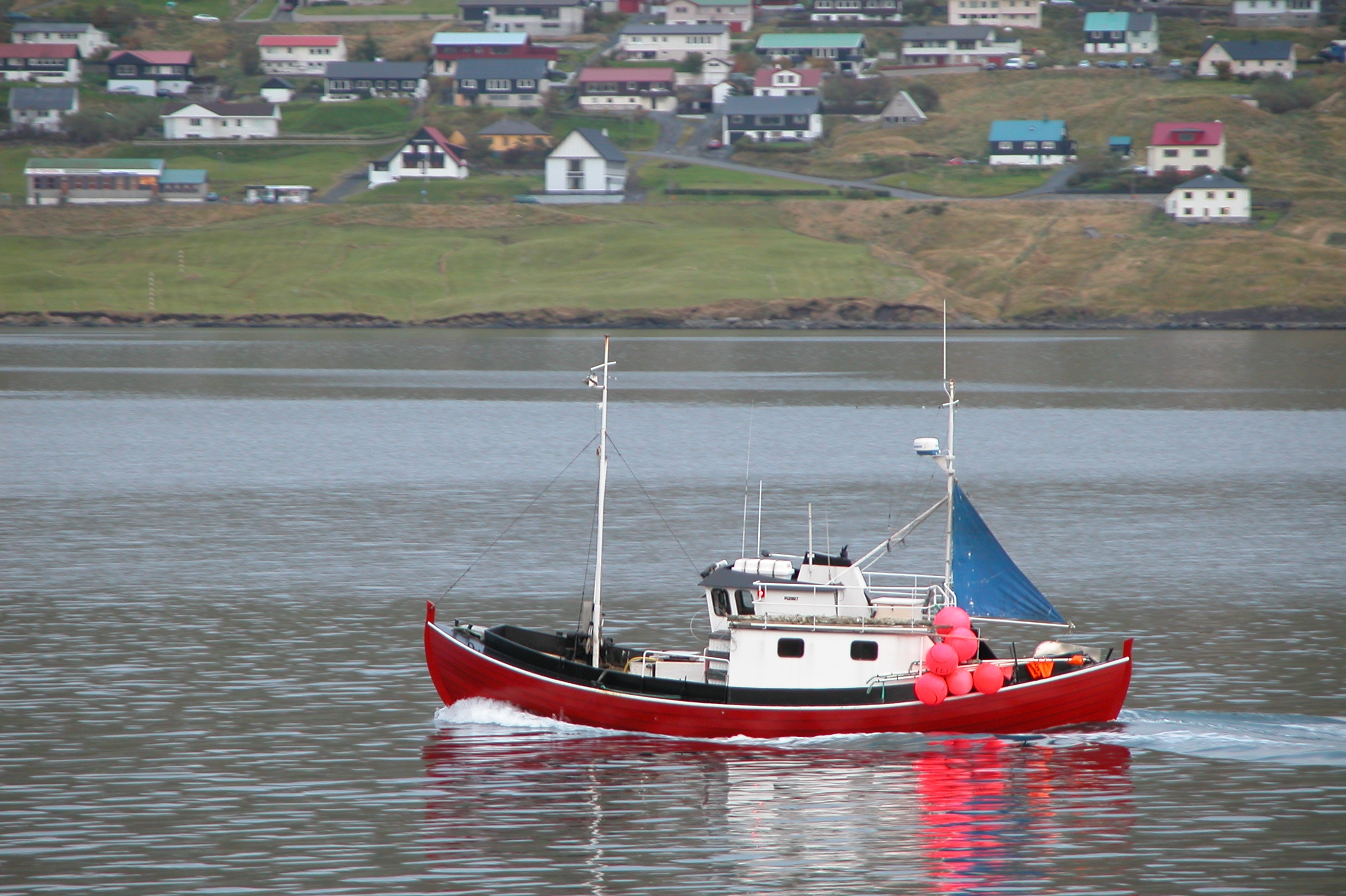 Faroe boat off Strendur on the Skálafjørður, Eysturoy, Faroe Islands.